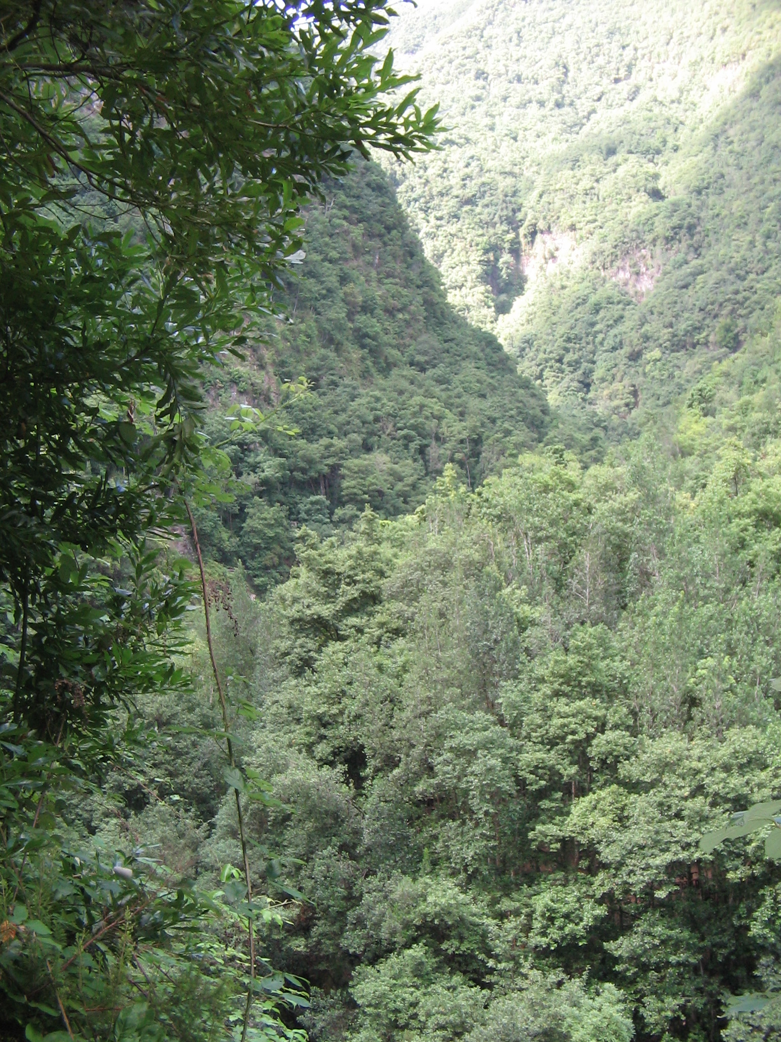 Laurisilva of La Palma